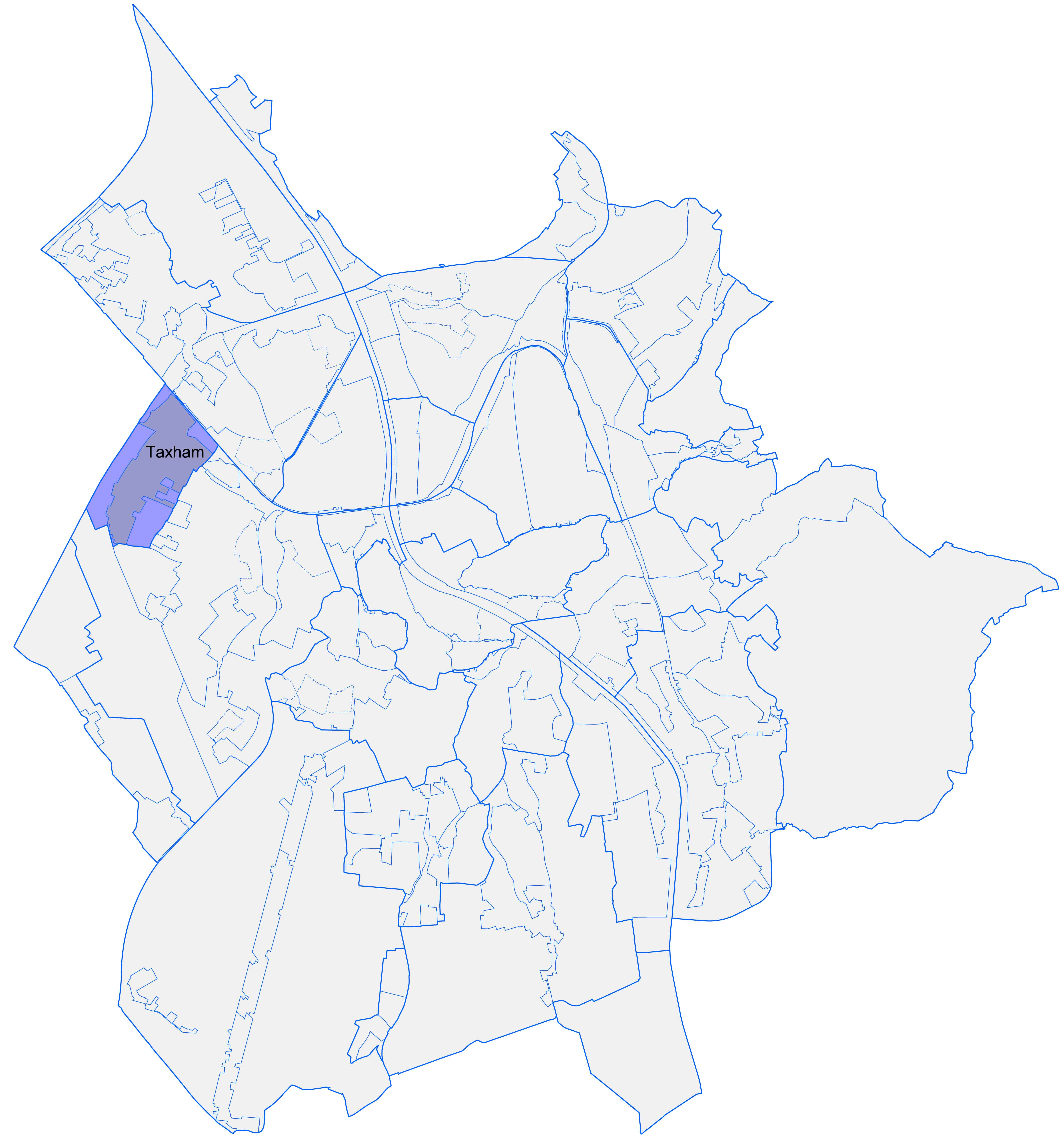 A quarter of the town of Salzburg: Taxham